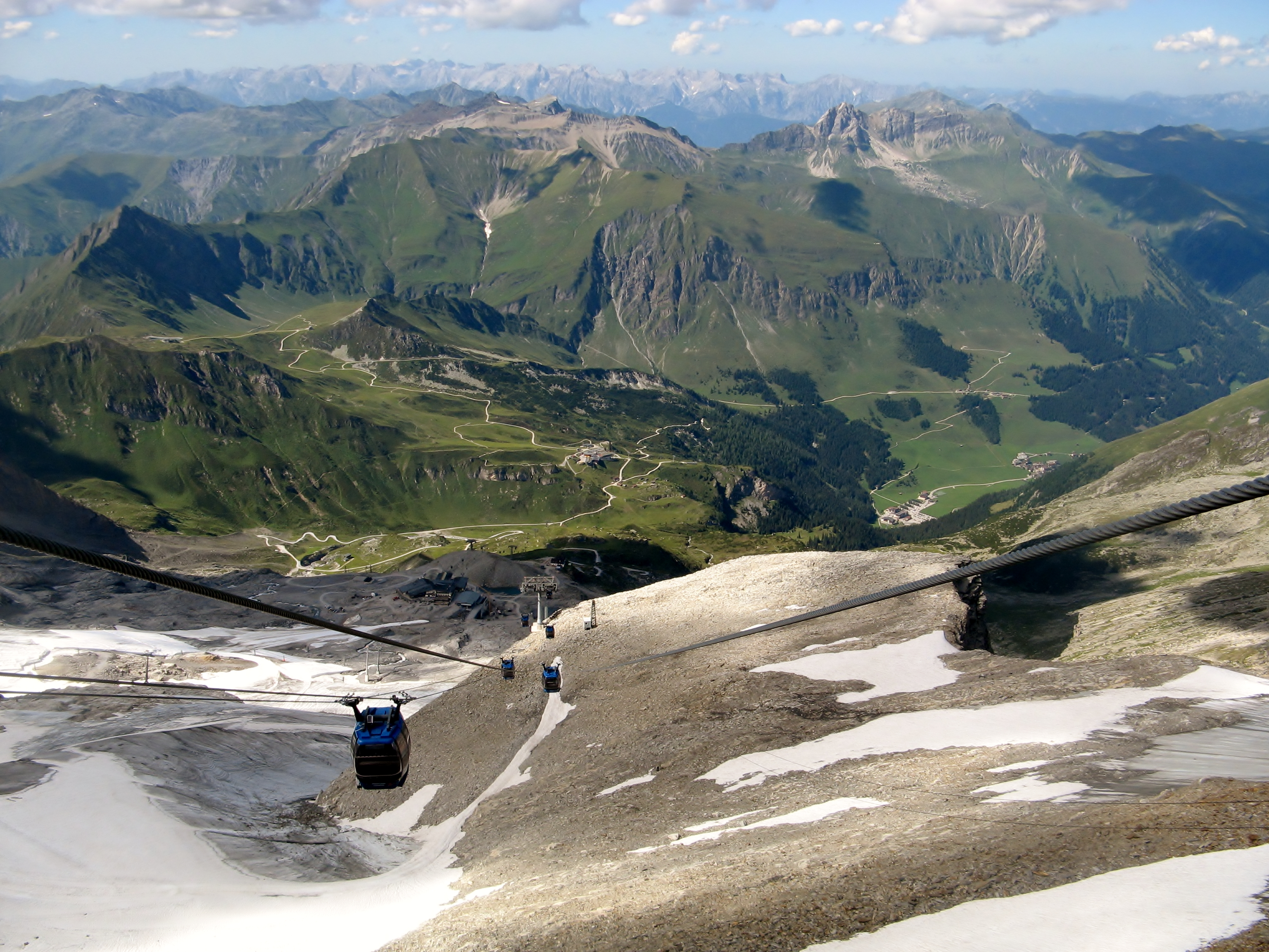 GletscherBus 3